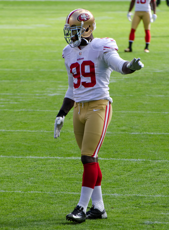 San Francisco 49ers vs. Green Bay Packers at Lambeau Field on September 9, 2012. Photo by Mike Morbeck.